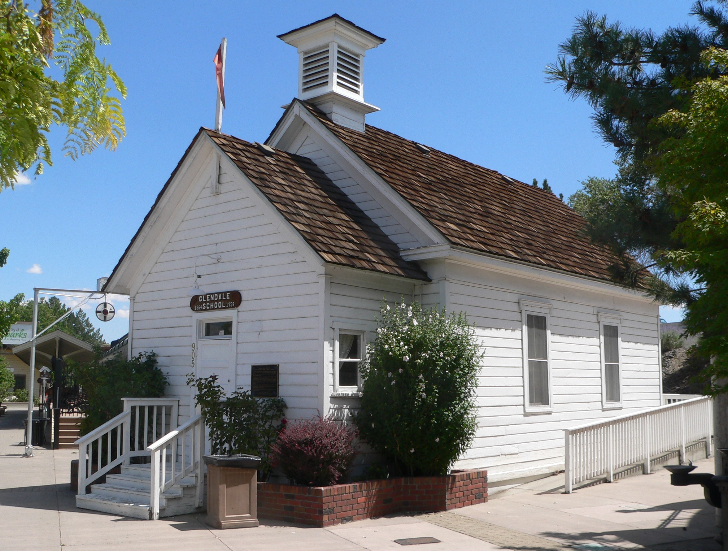 Glendale School, now located in Victorian Square in Sparks, Nevada; seen from the northwest.